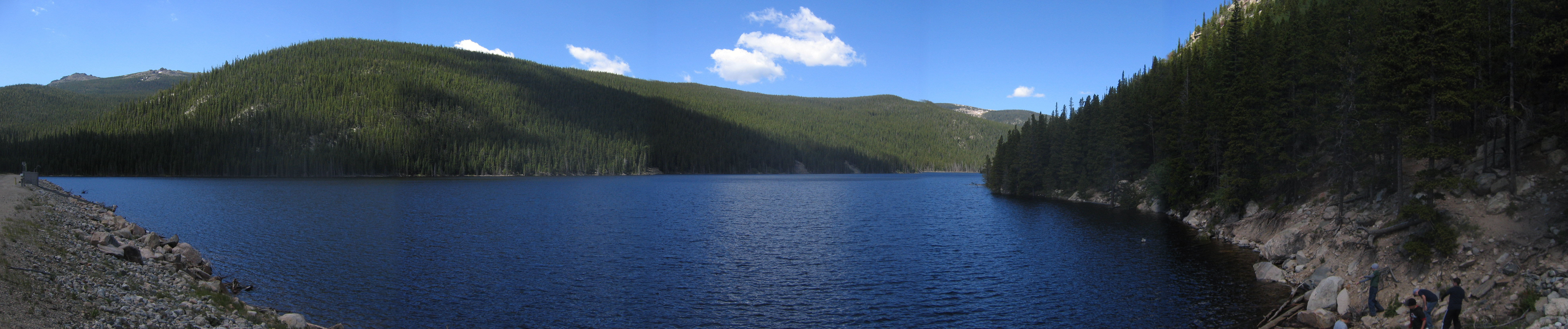 Panoramic photo of Comanche Reservoir, in the Roosevelt National Forest in Colorado. I took this picture myself on July 26, 2005. Summary Panoramic photo of Comanche Reservoir, in the Roosevelt National Forest in Colorado. I took this picture myself on July 26, 2005.